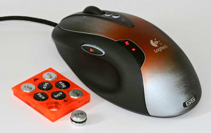 Self made image of Logitech G5 Canon Eos 350D, 100mm macro lens